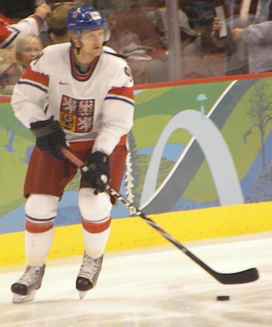 Martin Erat of the Czech Republic men's national ice hockey team, warming up before a match against the Slovakia men's national ice hockey team in the 2010 Winter Olympics at Canada Hockey Place on February 17, 2010.